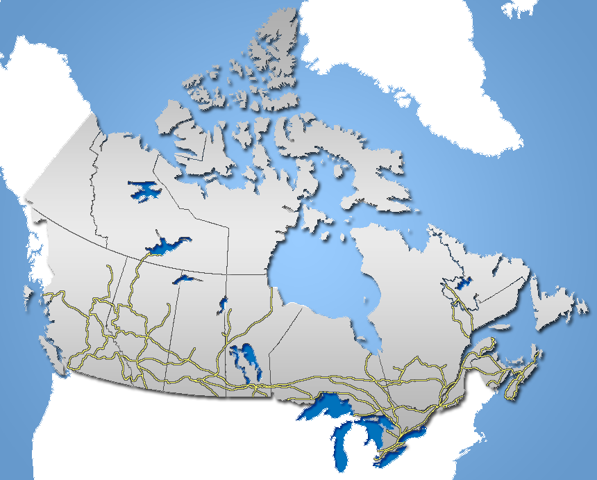 Major Railroad Network of Canada